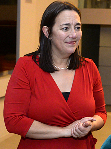 Visit to CET- Center for Education Technology, Tel Aviv